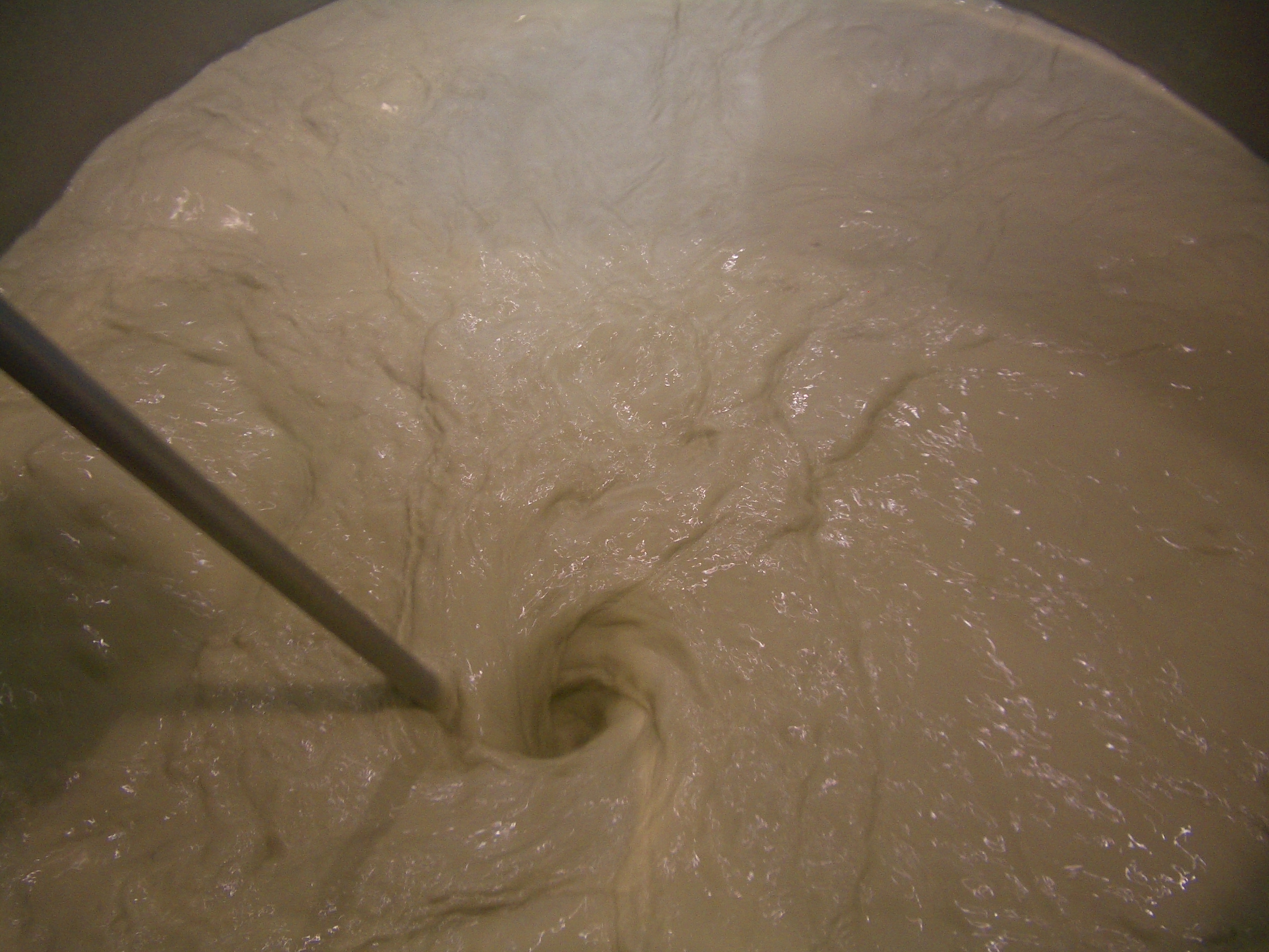 from author "We add bentonite, which is like really expensive mud, to help settle out the solids in juice after pressing. We buy it dry and have to mix it with water before adding it."